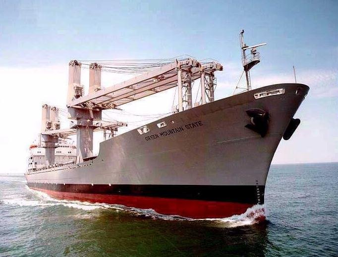 SS Green Mountain State (ACS-9) underway, date and location unknown. US Navy photo.